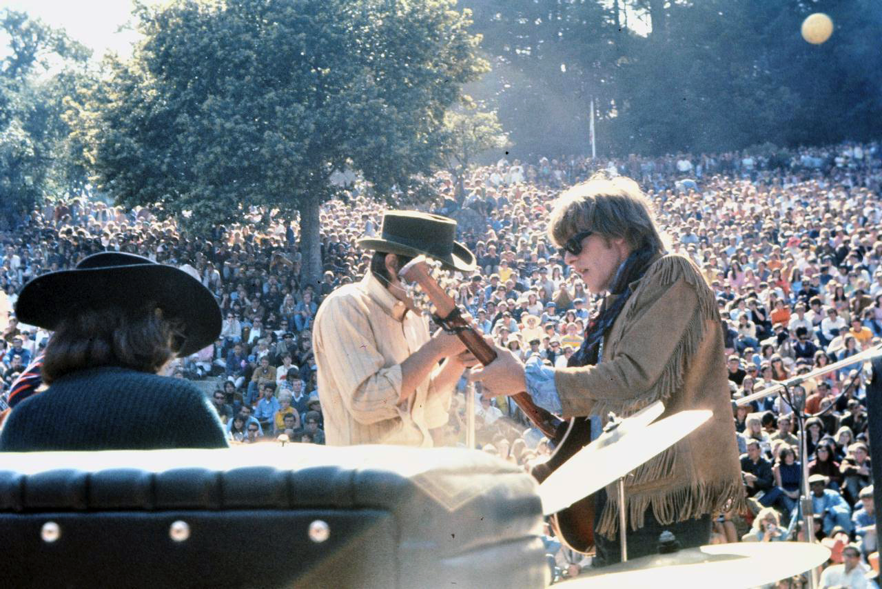 Members of Jefferson Airplane performing at the KFRC Fantasy Fair and Magic Mountain Music Festival in Marin County, California, United States in June, 1967 Original title: KFRC Fantasy Fair 1967: The Jefferson Airplane played (Paul Kantner right)